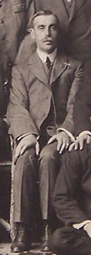 Walter E Rees with the British Isles, later the British and Irish Lions, rugby union team on their tour of South Africa in 1910